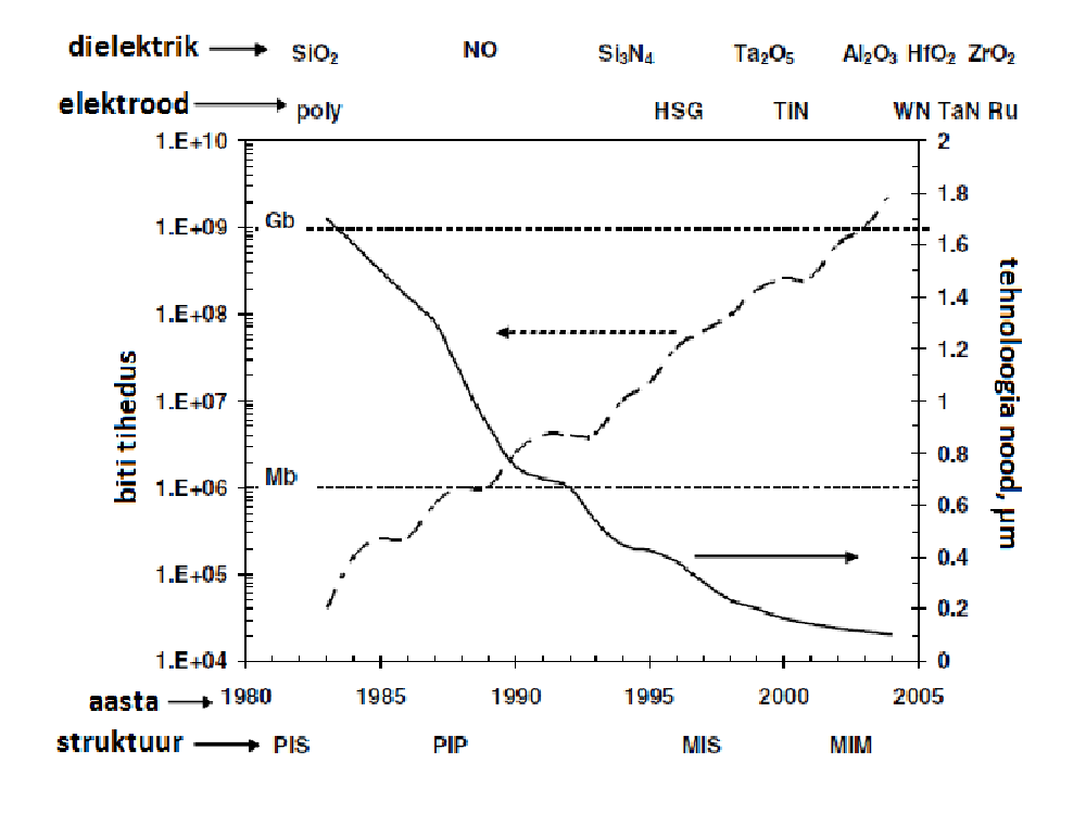 DRAMi kondensaatori materjalide, struktuuri, noodi ja bititiheduse muutumine läbi DRAMi ajaloo